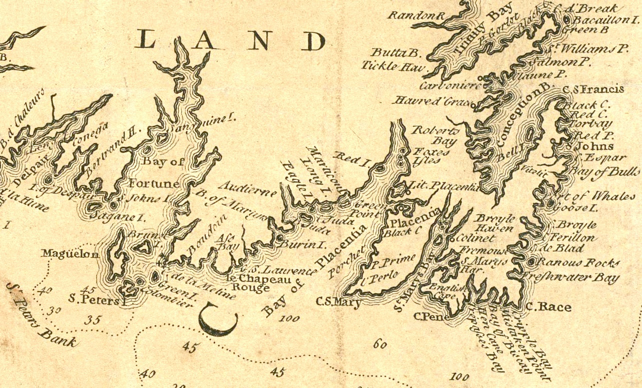 Extract from a 1746 map depicting southeastern Newfoundland. In addition to crop for selection, image has had levels and colors adjusted to improve contrast.